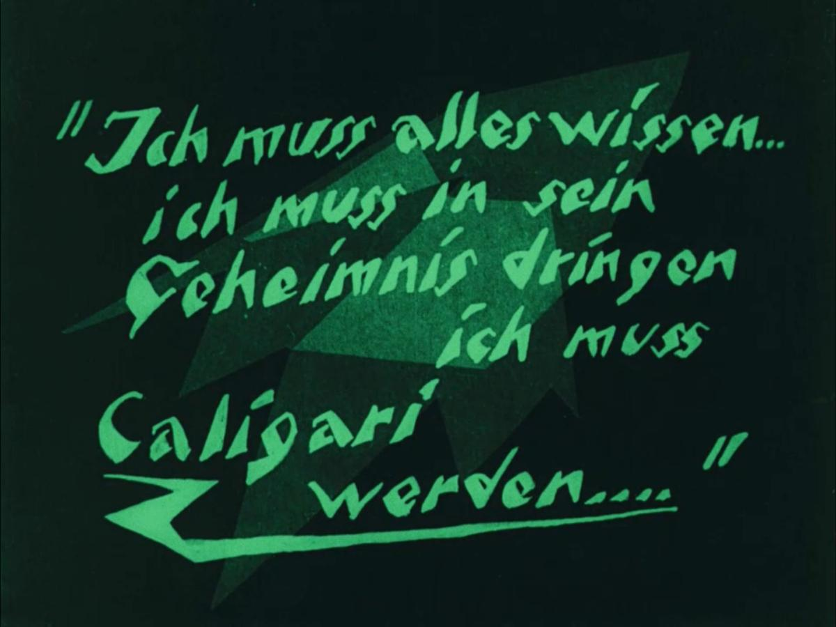 Intertitle shortly before the end of the V. act in the german silent film Das Cabinet des Dr. Caligari.